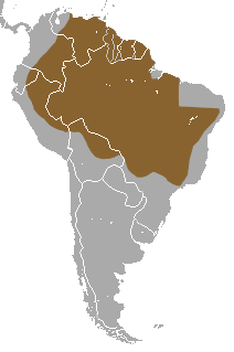 Cabasu (Cabassous unicinctus) range